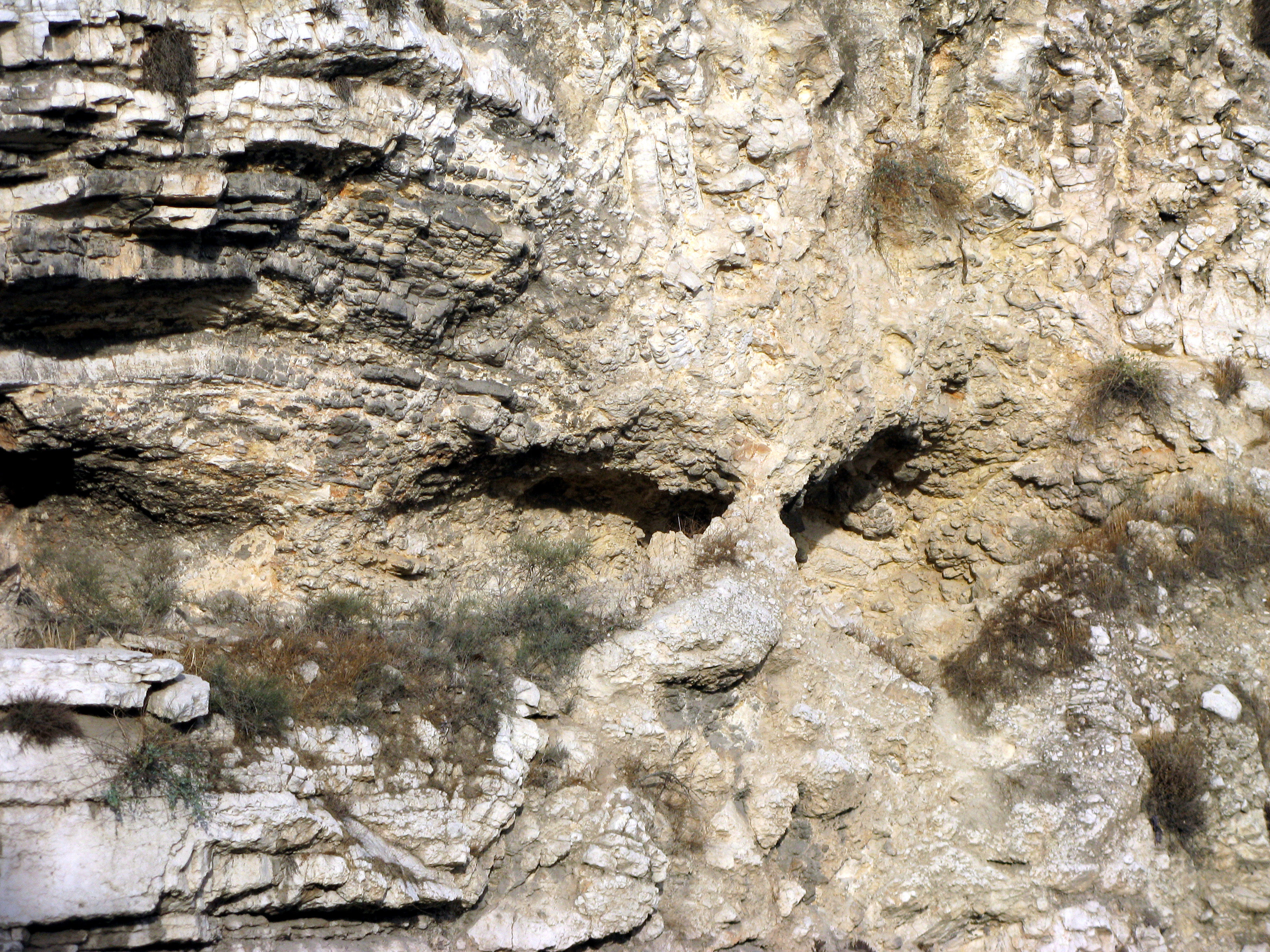 Garden Tomb Golgotha (skull rock)